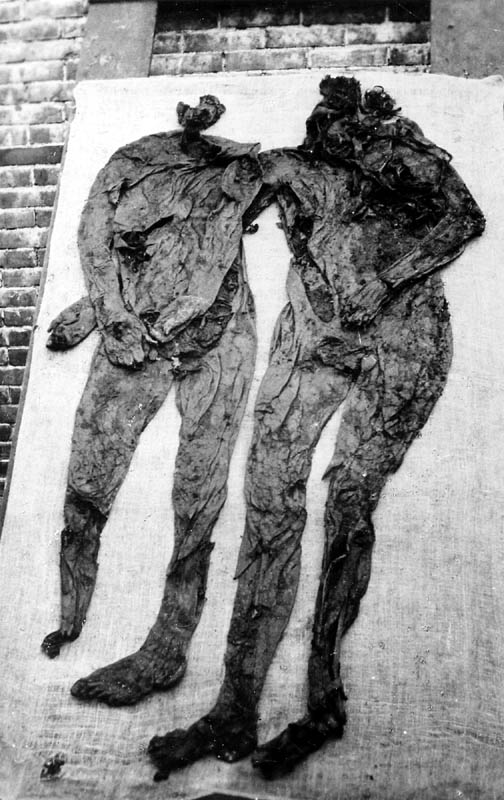 Historic photography of the remains of the bog bodies Weerdinge Men shortly after their discovery on 29 June 1904. Both Men were deposited on the bog between 200 and 400 A.D.